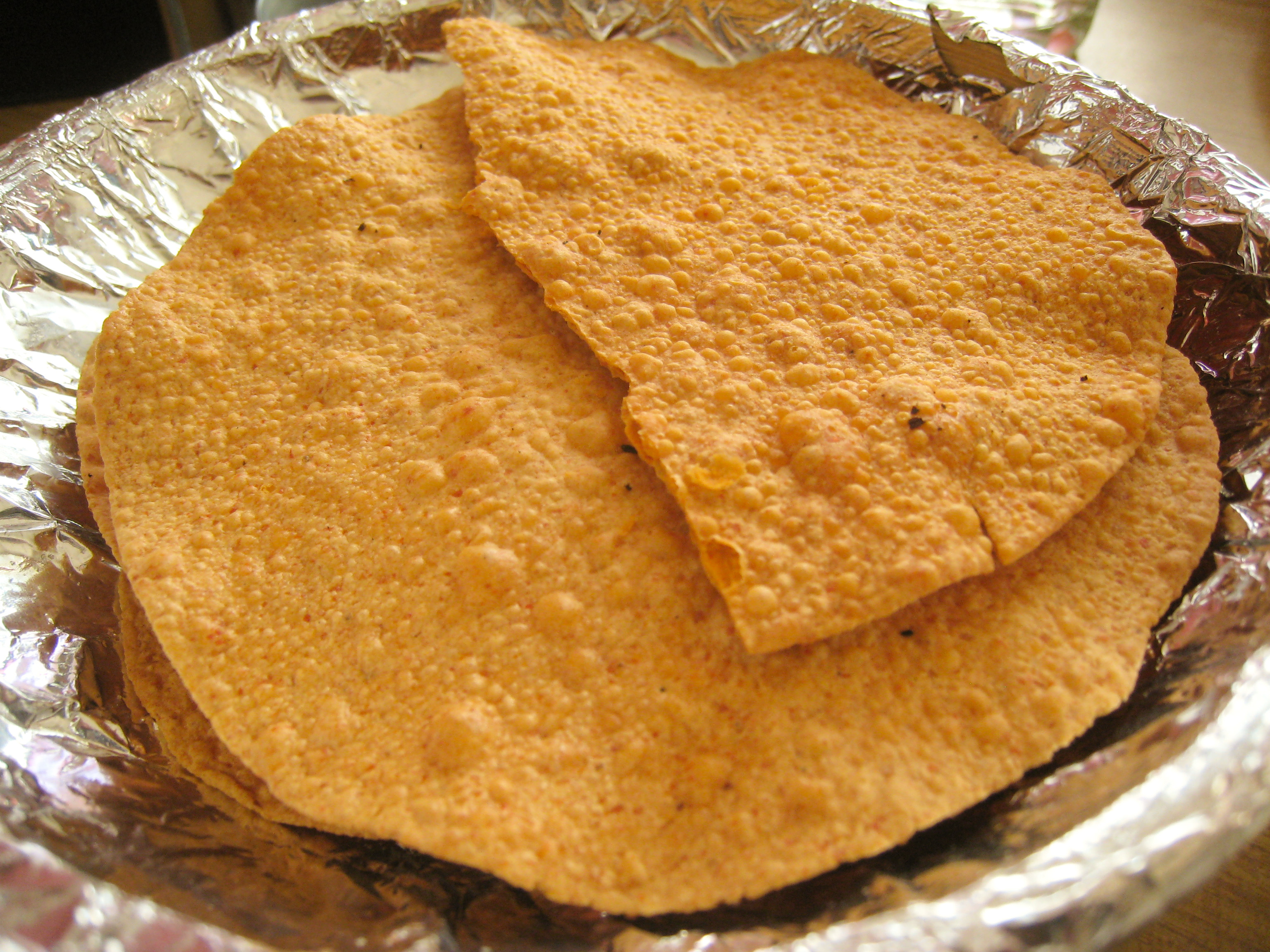 Jackfruit papads from Bangalore